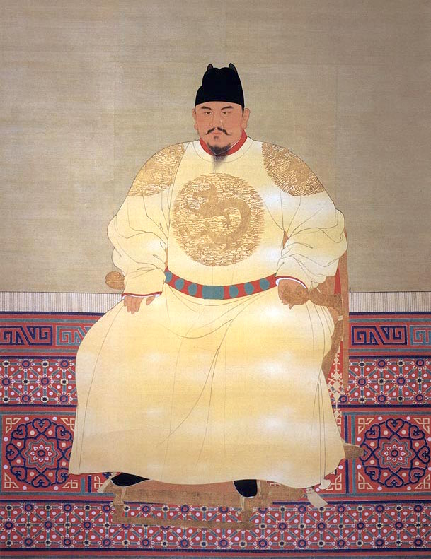 Cropped version of File:Hongwu1.jpg